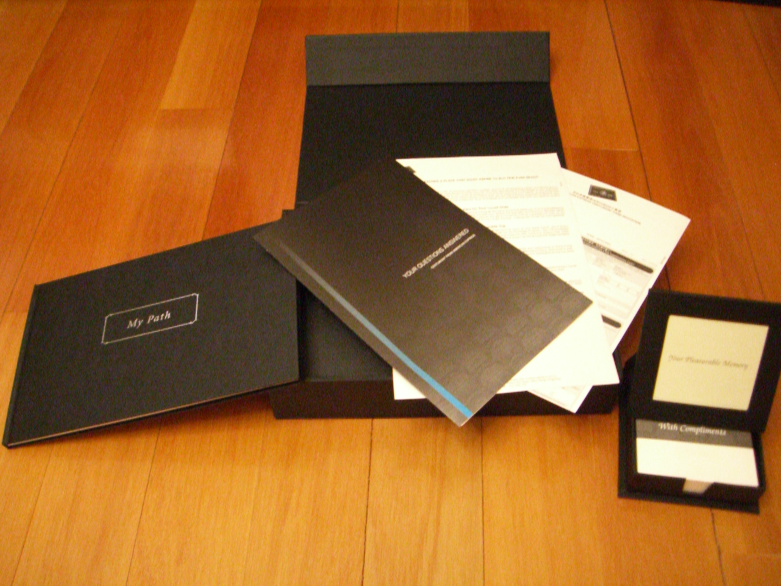 A picture of Centurion Card invitation taken by me.